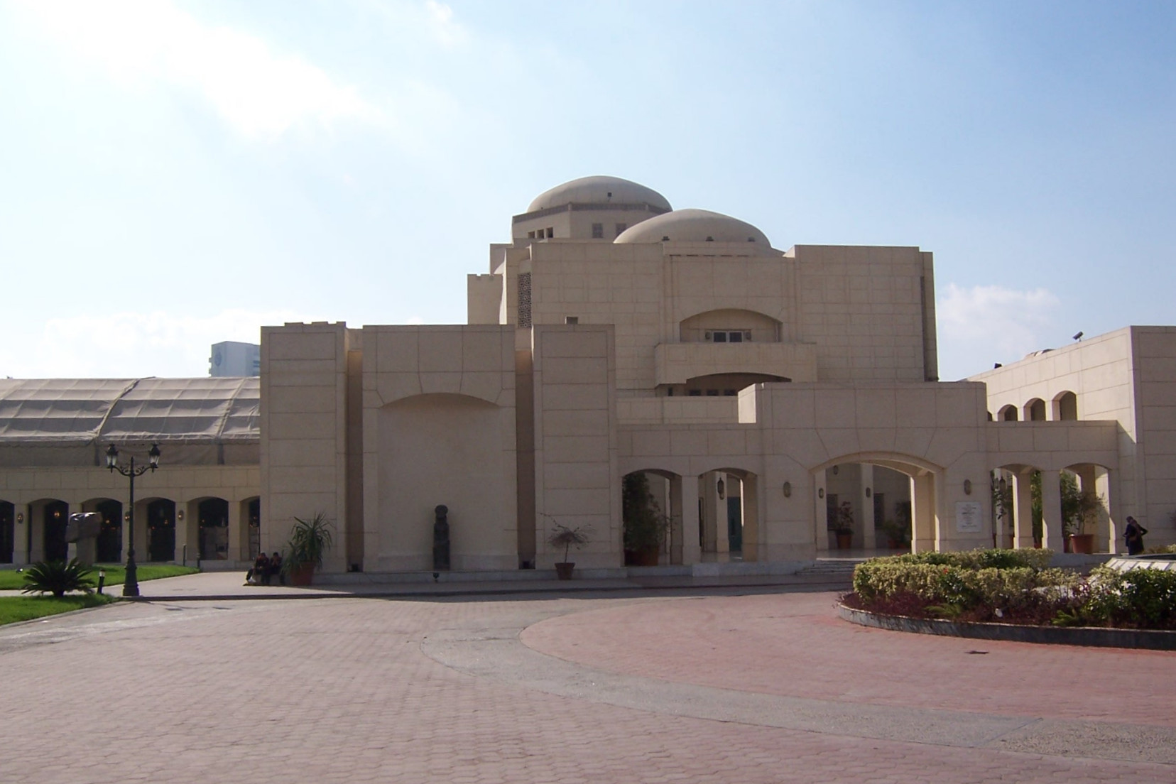 Photos from winter Egypt trip 2007 Jan-Feb